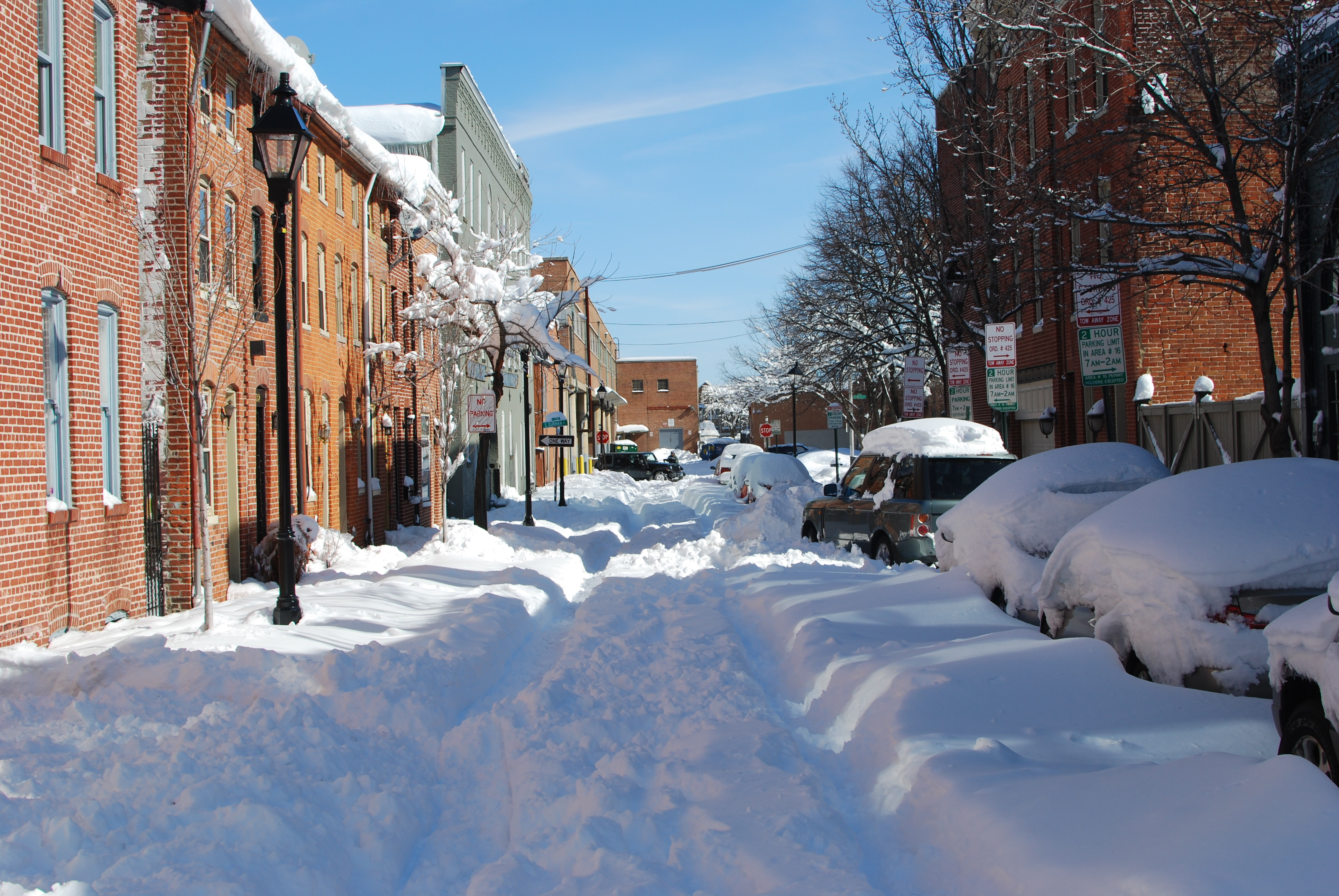 Blizzard 2010, Lancaster Street, Fells Point Location: Baltimore.